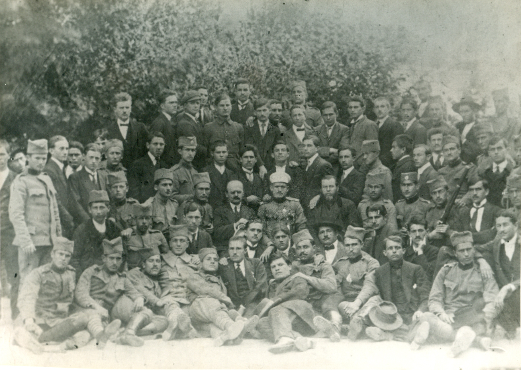 Graduates of the Negotin's, Jagodina's and Aleksinac's Teacher Schools in Jagodina 1915. Srpski (latinica): Maturanti negotinske, jagodinske i aleksinačke Učiteljske škole na tečaju u Jagodini 1915.